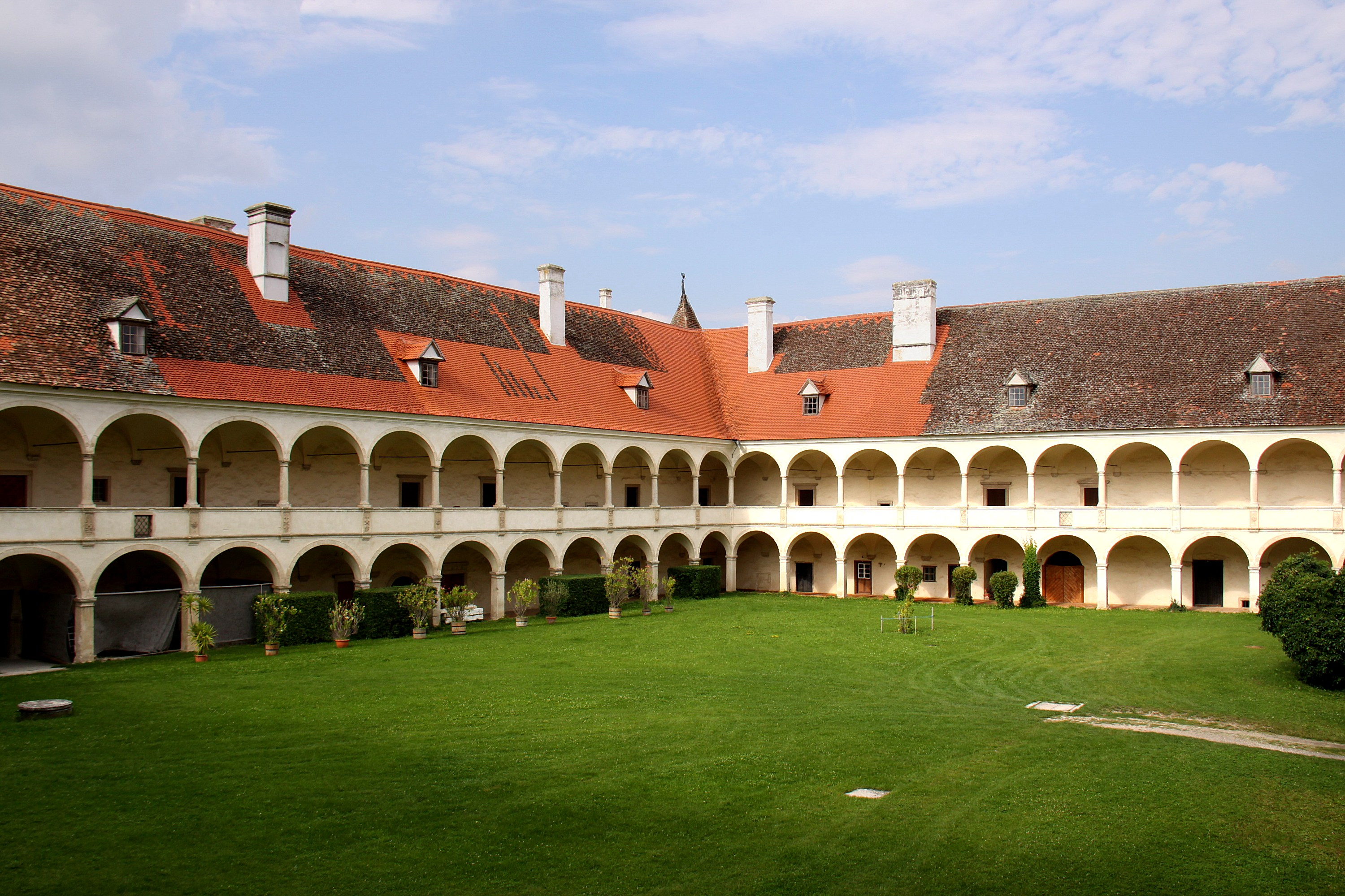 Castle Deutschkreutz Object location47° 35′ 59.19″ N, 16° 38′ 45.67″ E